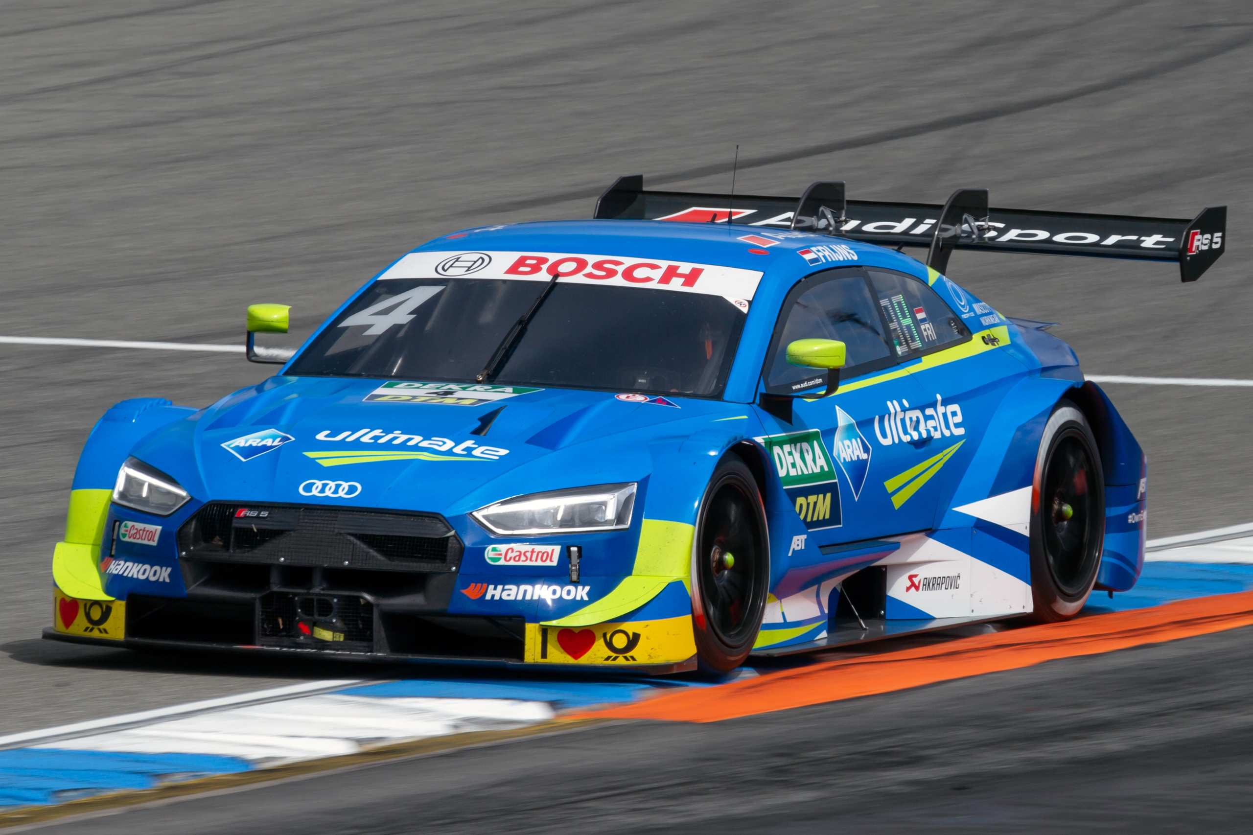 2019 DTM Hockenheimring (May): Audi RS5 Turbo DTM of Robin Frijns